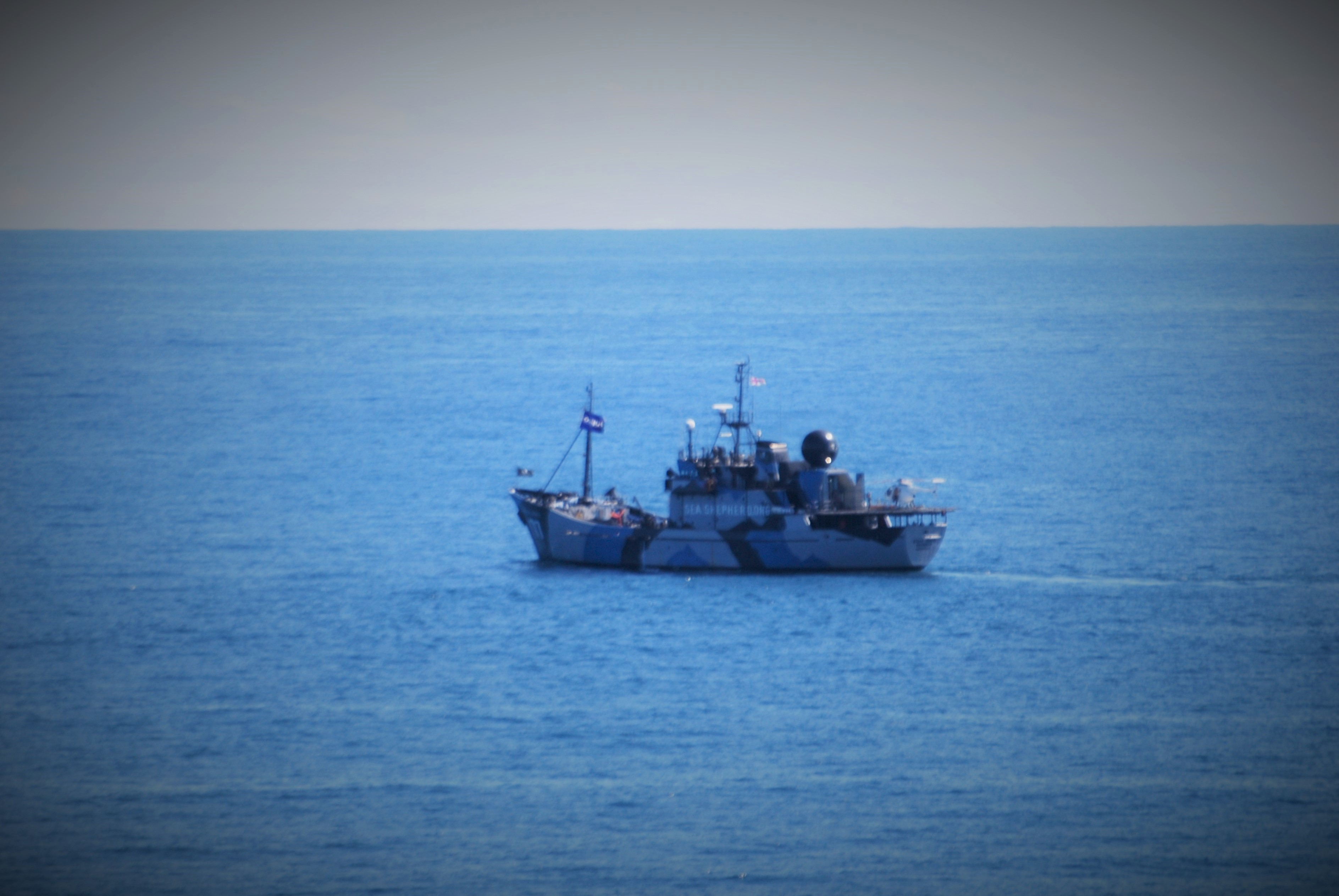 MY Steve Irwin, from the Sea Shepherd Conservation Society, near Porkeri, Suðuroy, Faroe Islands